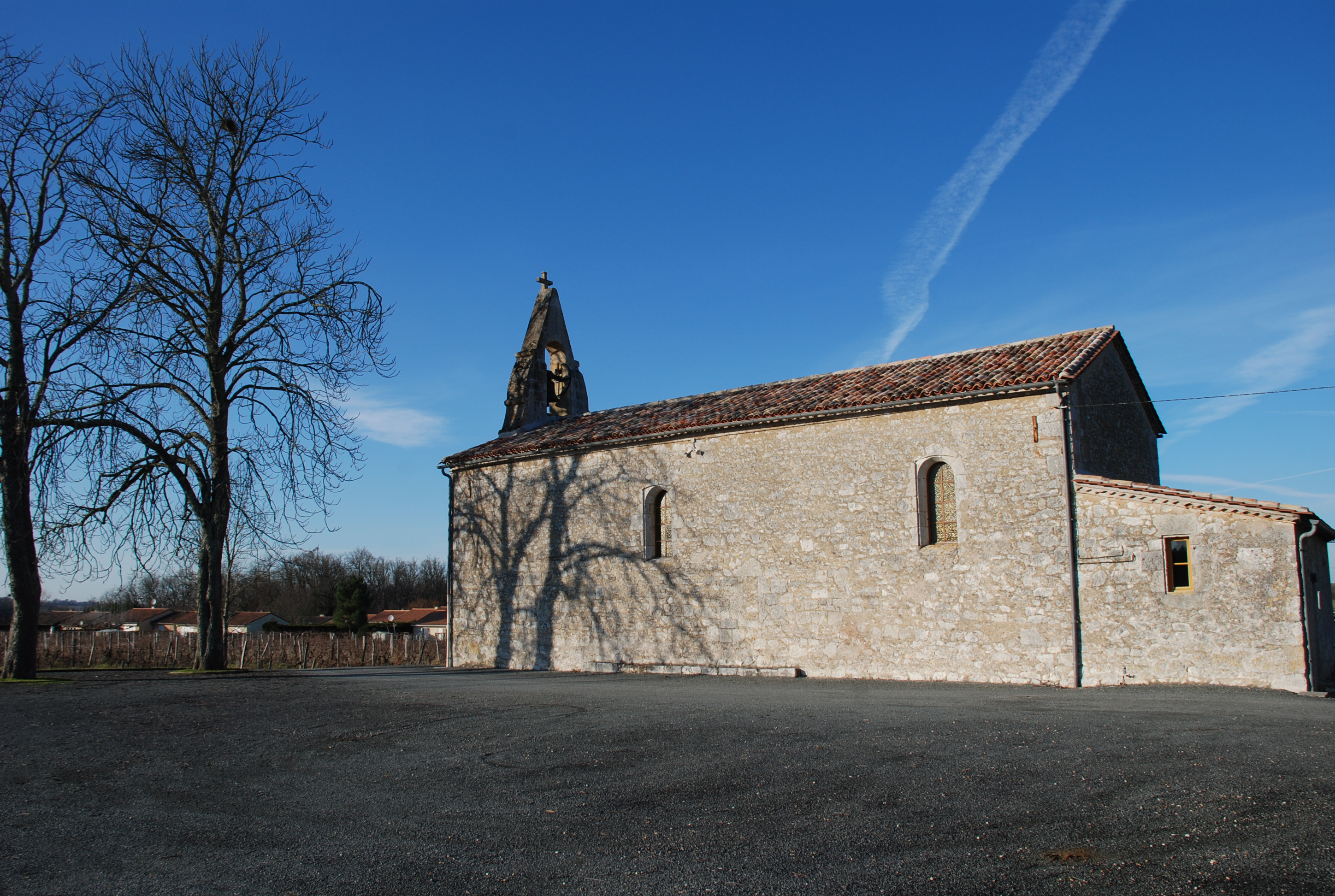 La Roquille church (Gironde) France